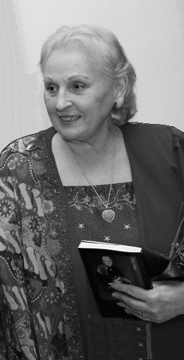 Marie Rivai (* 1942) is a Czech writer and traveler. She traveled for several years after Southeast Asia, studying the culture of local ethnic groups. Marie Rivai lives alternately in Prague and Indonesia, is married to a Muslim from Indonesia and has two children (daughter and son). She is the author of books on Southeast Asia as well as children's and youth books. In her poems work, Marie Rivai is able to create a poetic atmosphere of hope and dream.